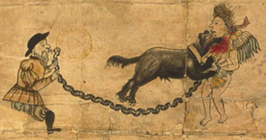 Spanish attacks a mexican with a dog in the Codex Coyoacán Bibliothèque nationale de France XVI century